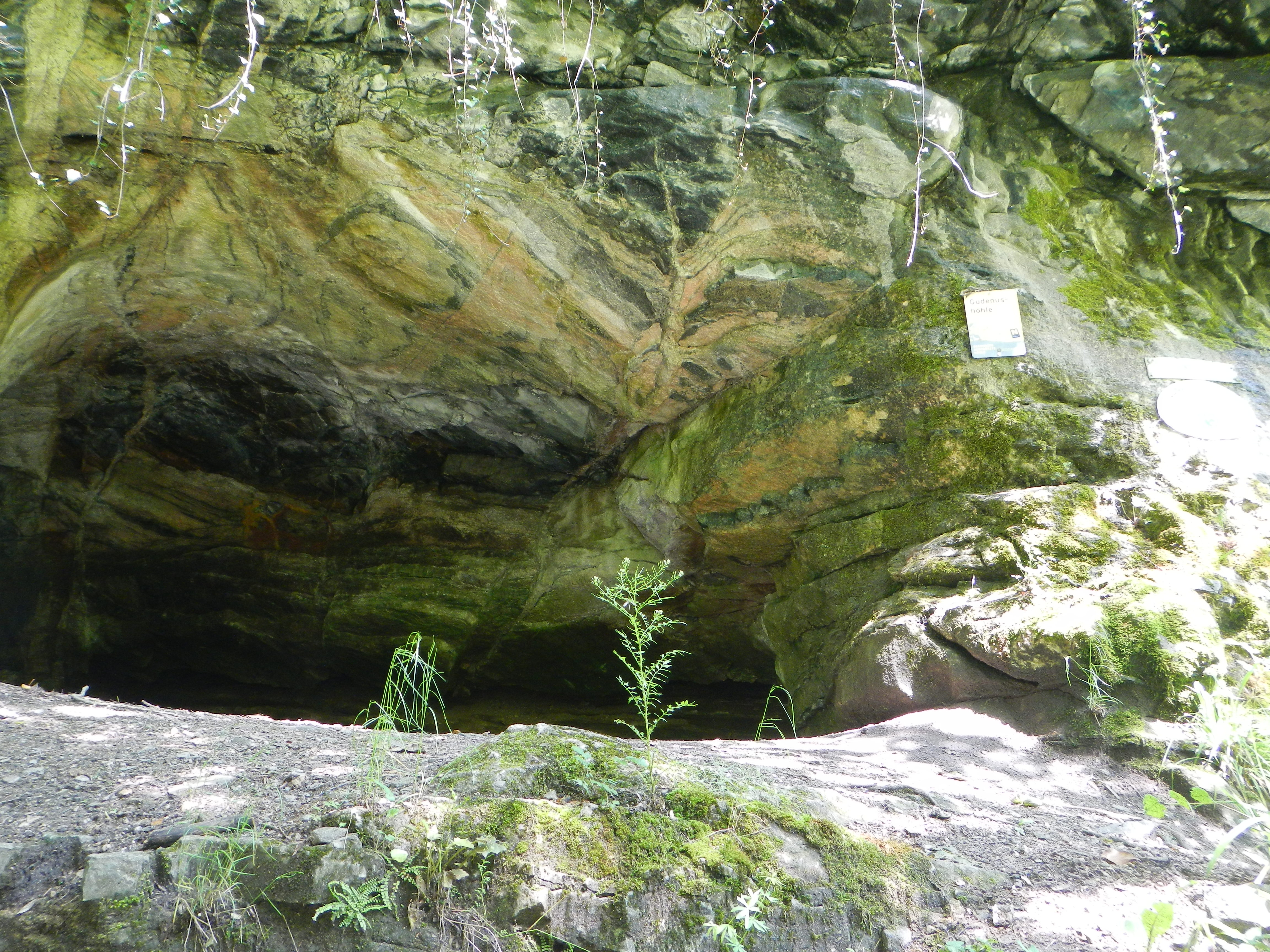 Gudenus-cave near ruin of Hartenstein, Lower Austria